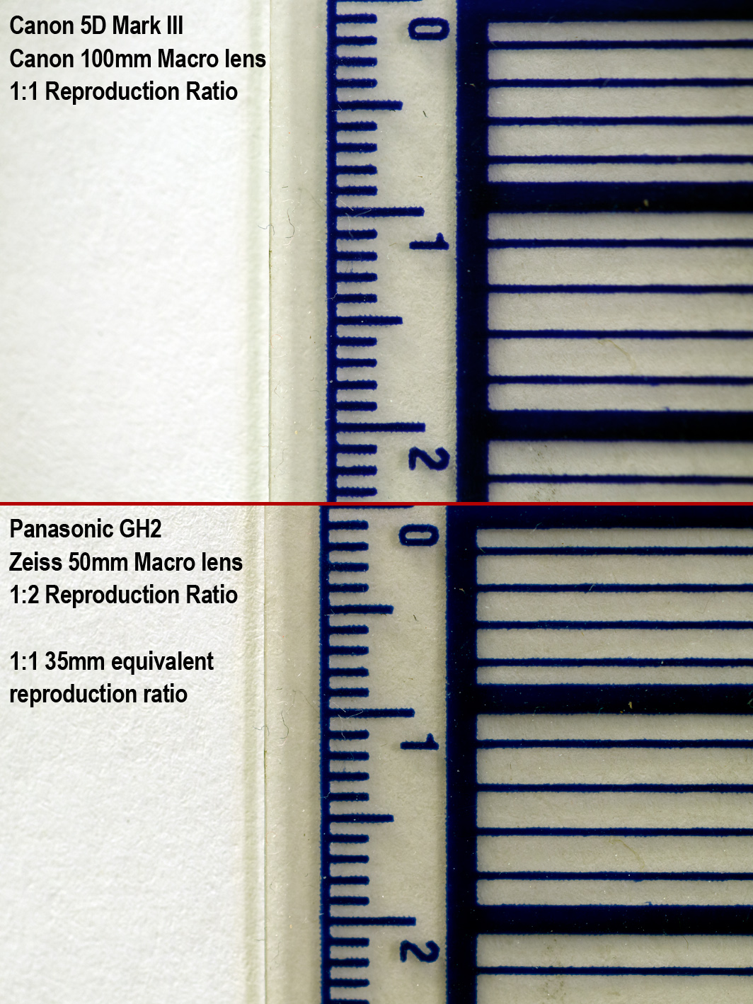 Photo demonstrating 35mm Equivalent Reproduction Ratio, Author: David Siegfried, Uploaded under Creative Commons Attribution 3.0 License. You are free to Share — to copy, distribute and transmit the work; to Remix — to adapt the work; to make commercial use of the work, as long as: You attribute the work to the author, David Siegfried